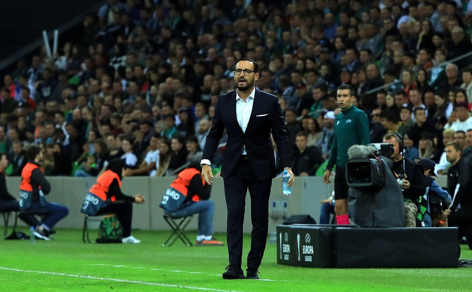 José Bordalás coaching Getafe CF in an Europa League game against FC Krasnodar.